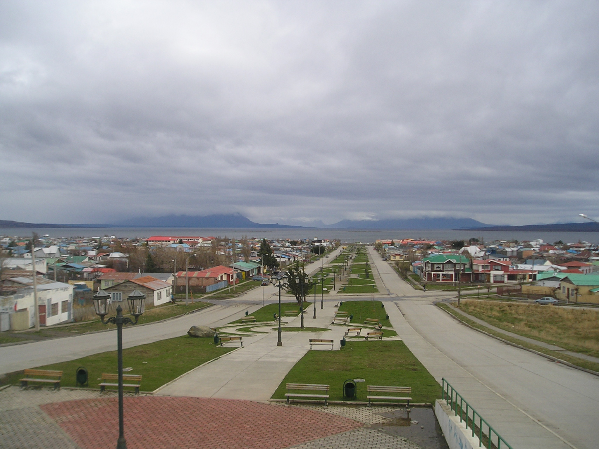 Puerto Natales, Chile - park of four native tribes